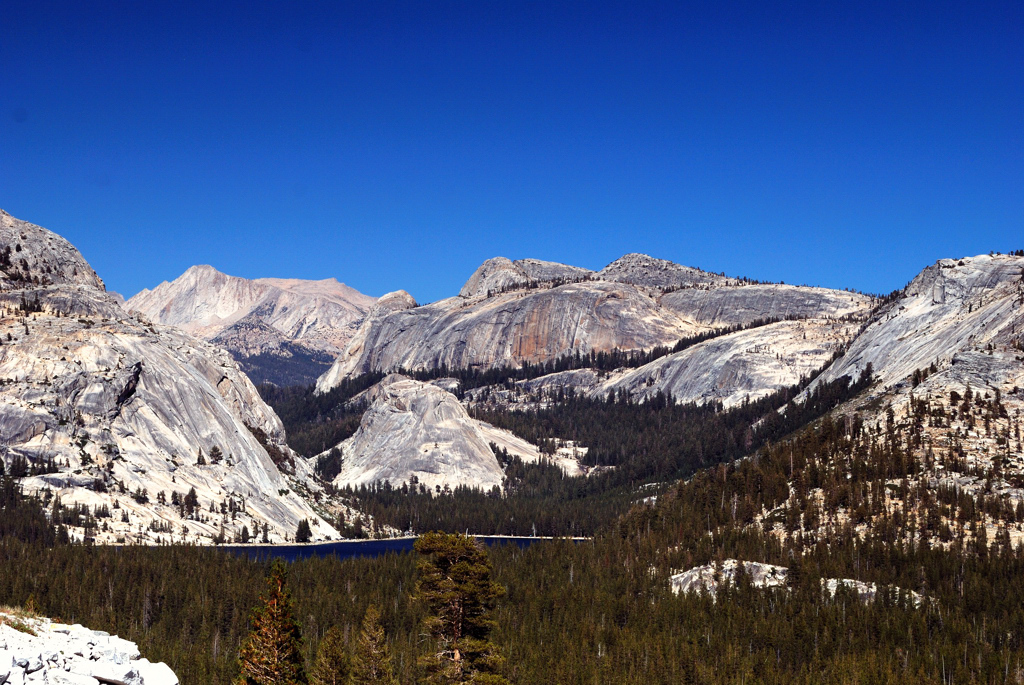 Tenaya Lake, view from Olmsted Point, Yosemite National Park.